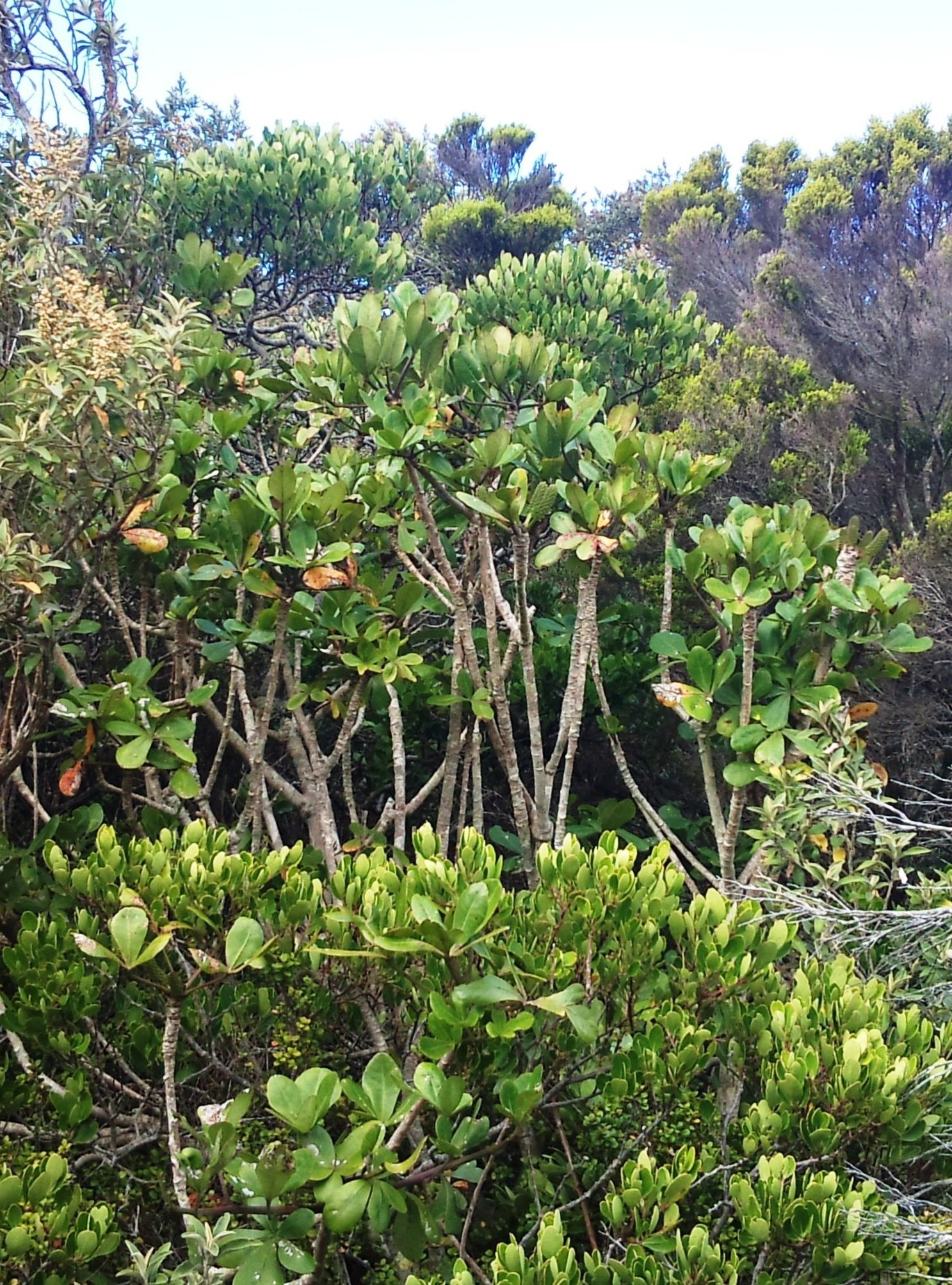 Cussonia thyrsiflora - Coastal Cabbage Tree in coastal forests near Cape Point. South Africa.